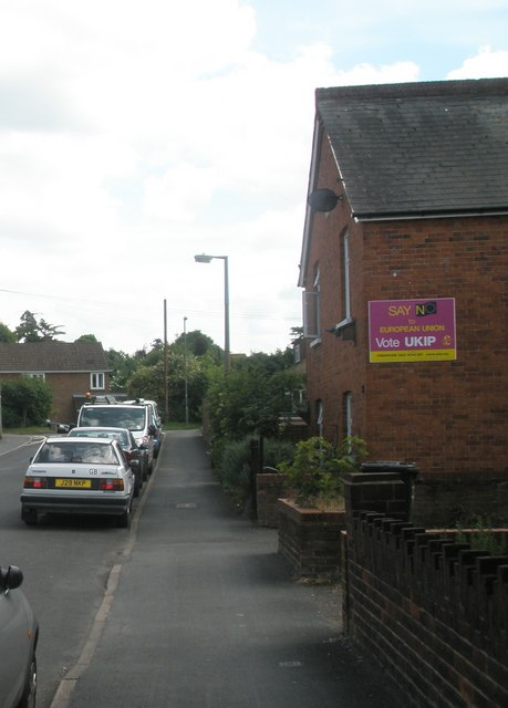 UKIP poster in Alexandra Road